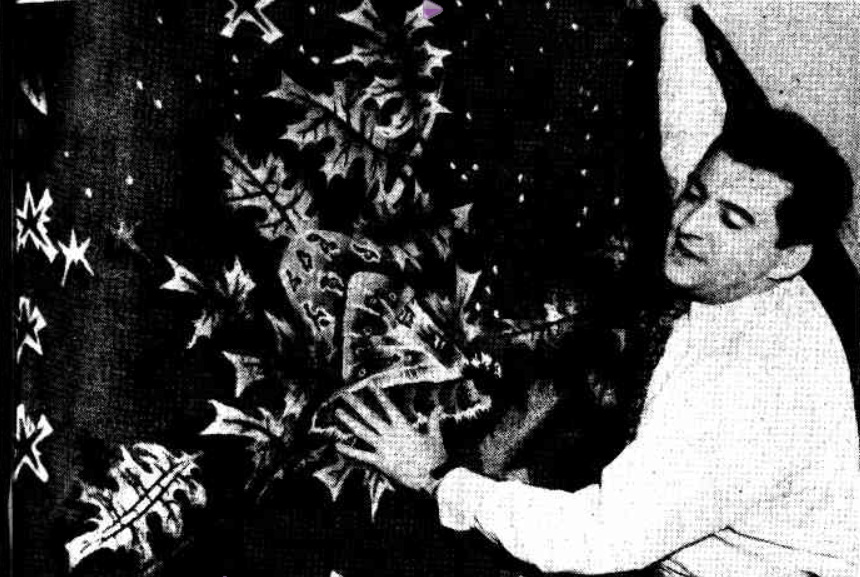 Claude Bonin-Pissarro at The Tasmanian Museum and Art Gallery, holding a tapestry entitled "Toujours vit d'espoir sur terre", Hobart 1953